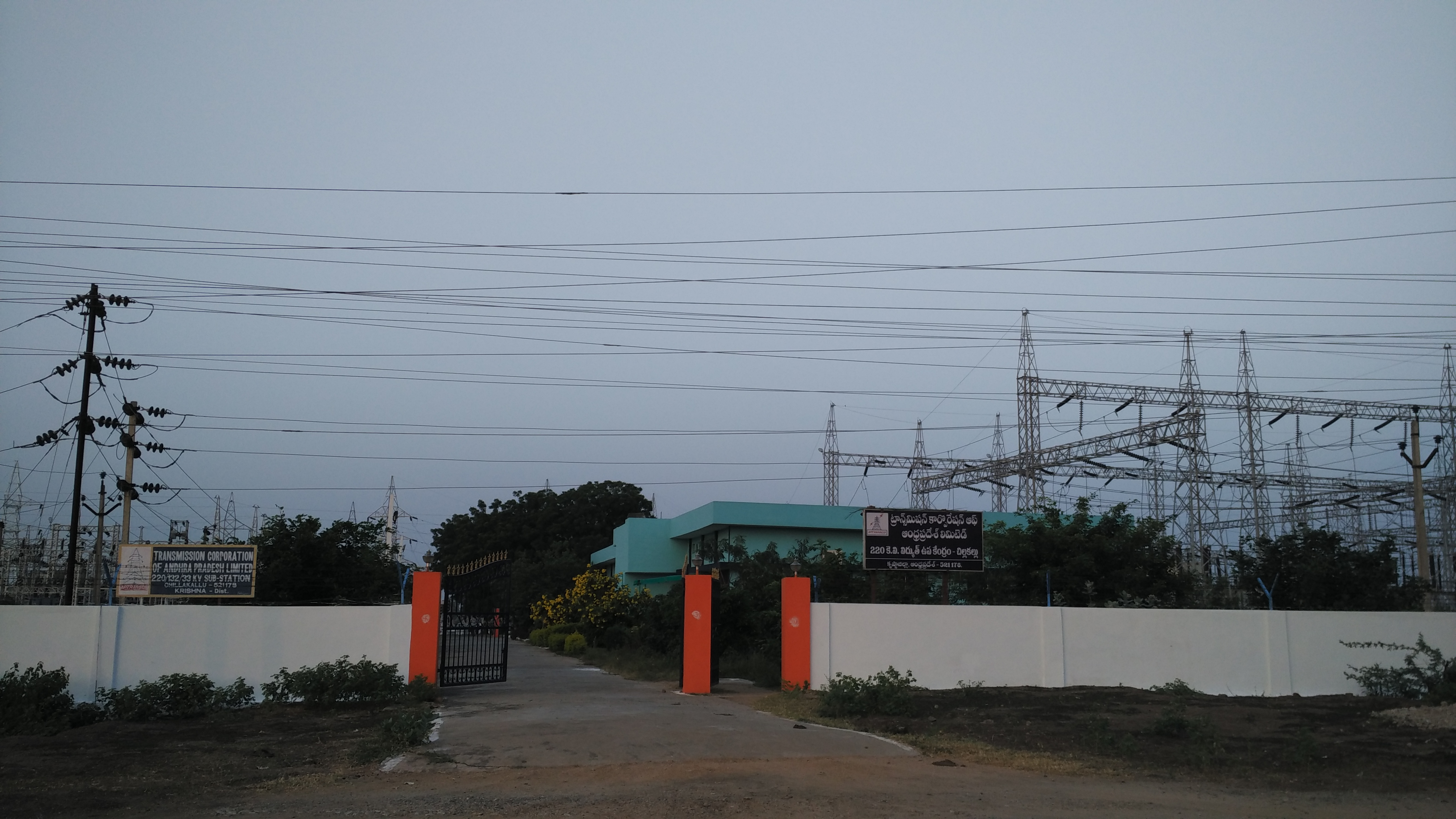 220 kV substation at Chillakallu village, Jaggayya pet Mandal